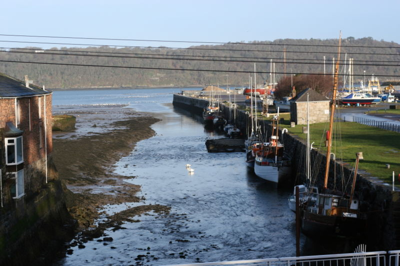 Afon Cegin, Porth Penrhyn